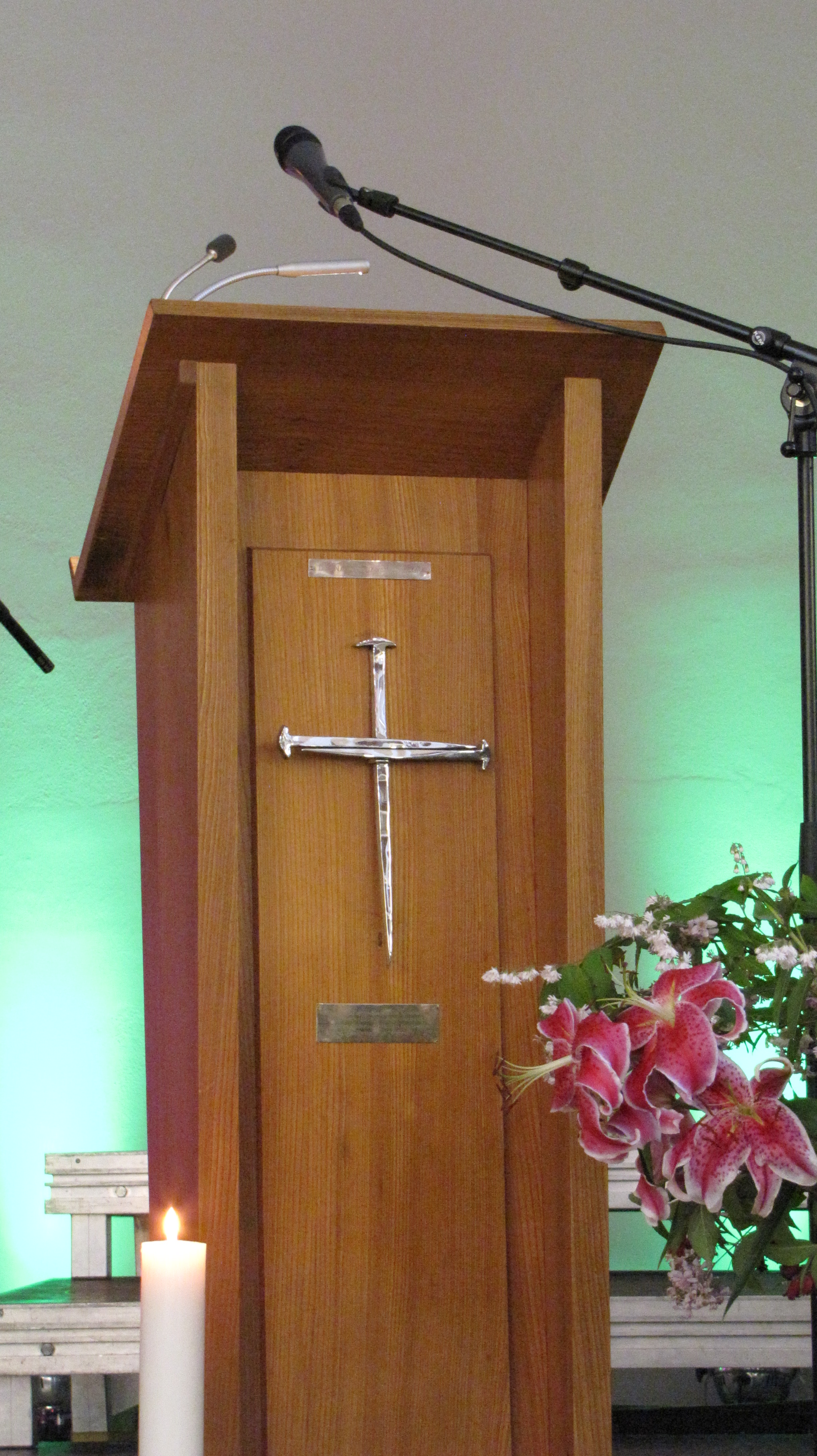 Cross of Nails in the chapel of the Diakonissenanstalt Dresden